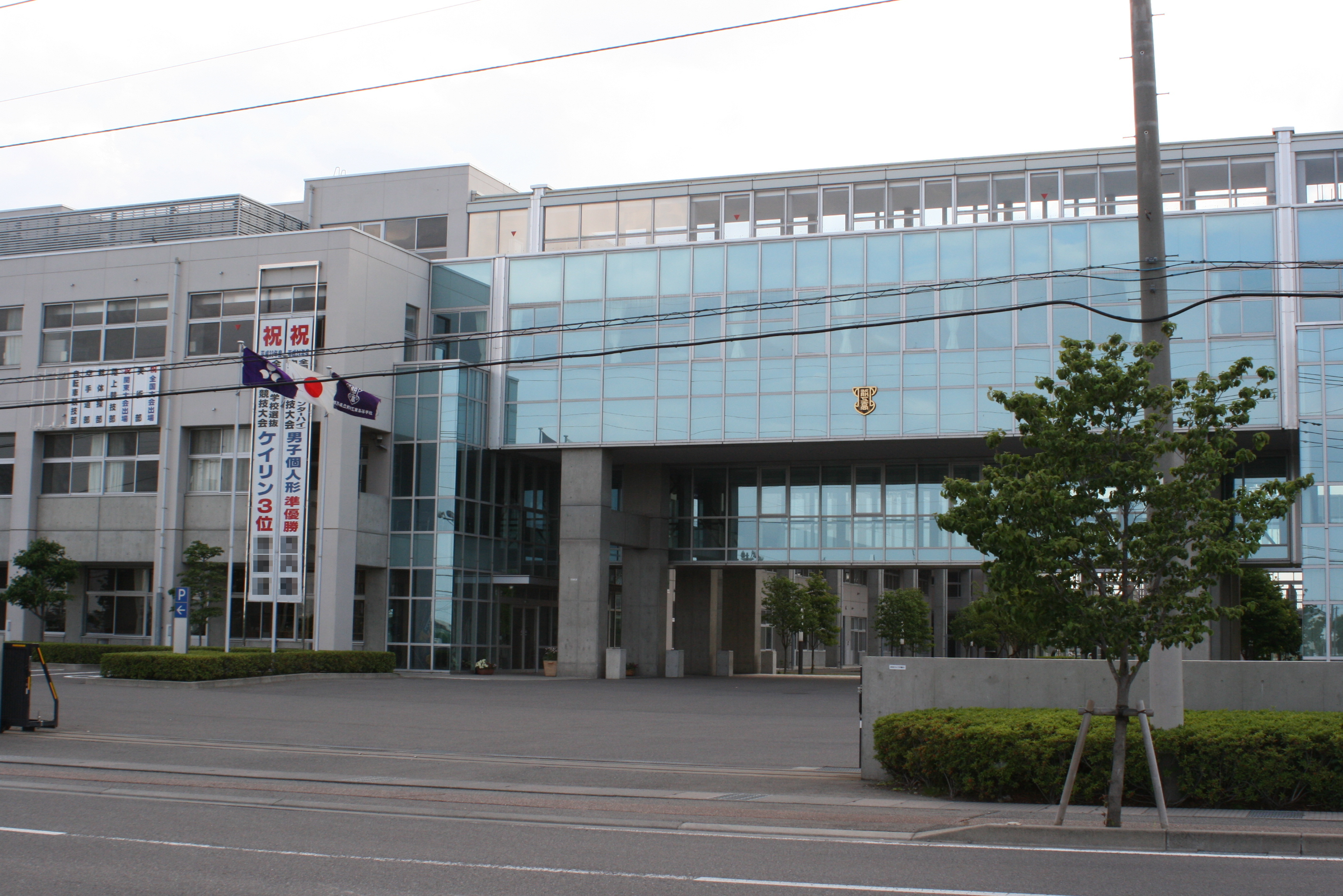 Gunma Prefectural Maebashi Technical High School